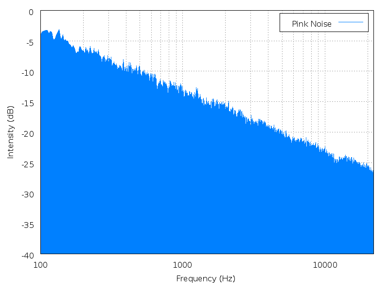 Pink noise spectrum